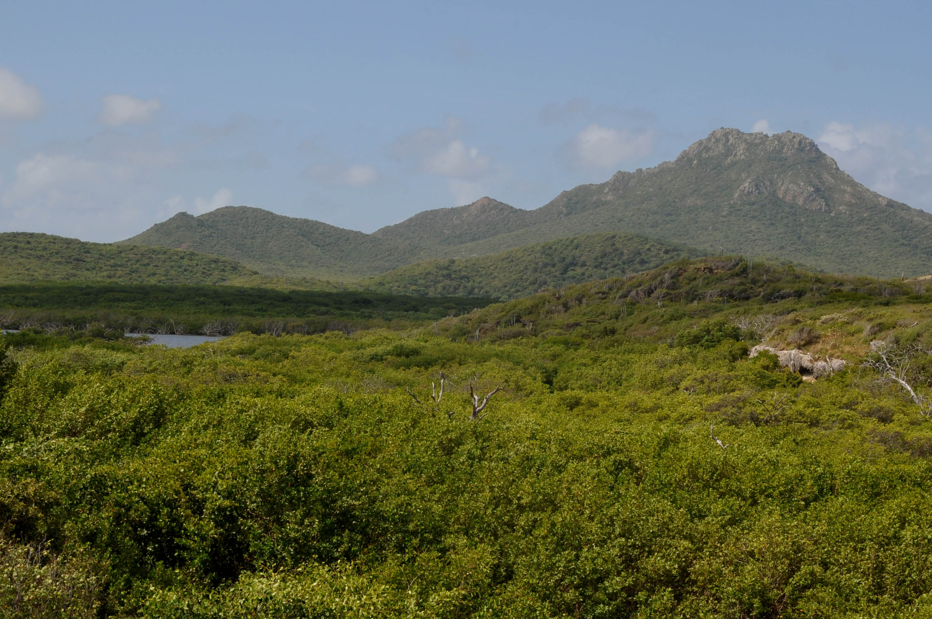 THIS IS THE HIGHEST MOUNTAIN ON CURACAO AT 1239 FEET